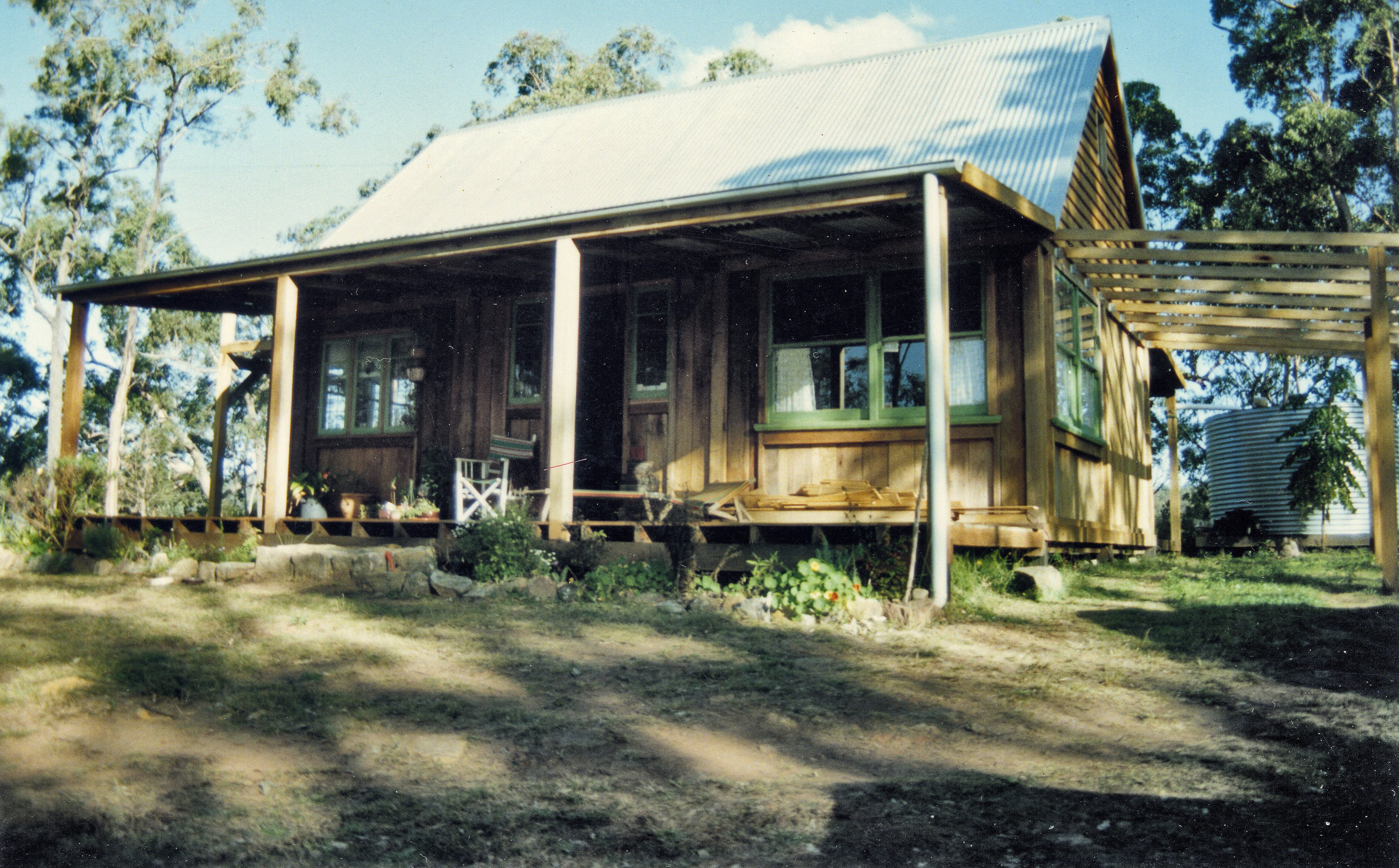 Front view, contemporary slab house, Watagan Ranges, NSW Australia